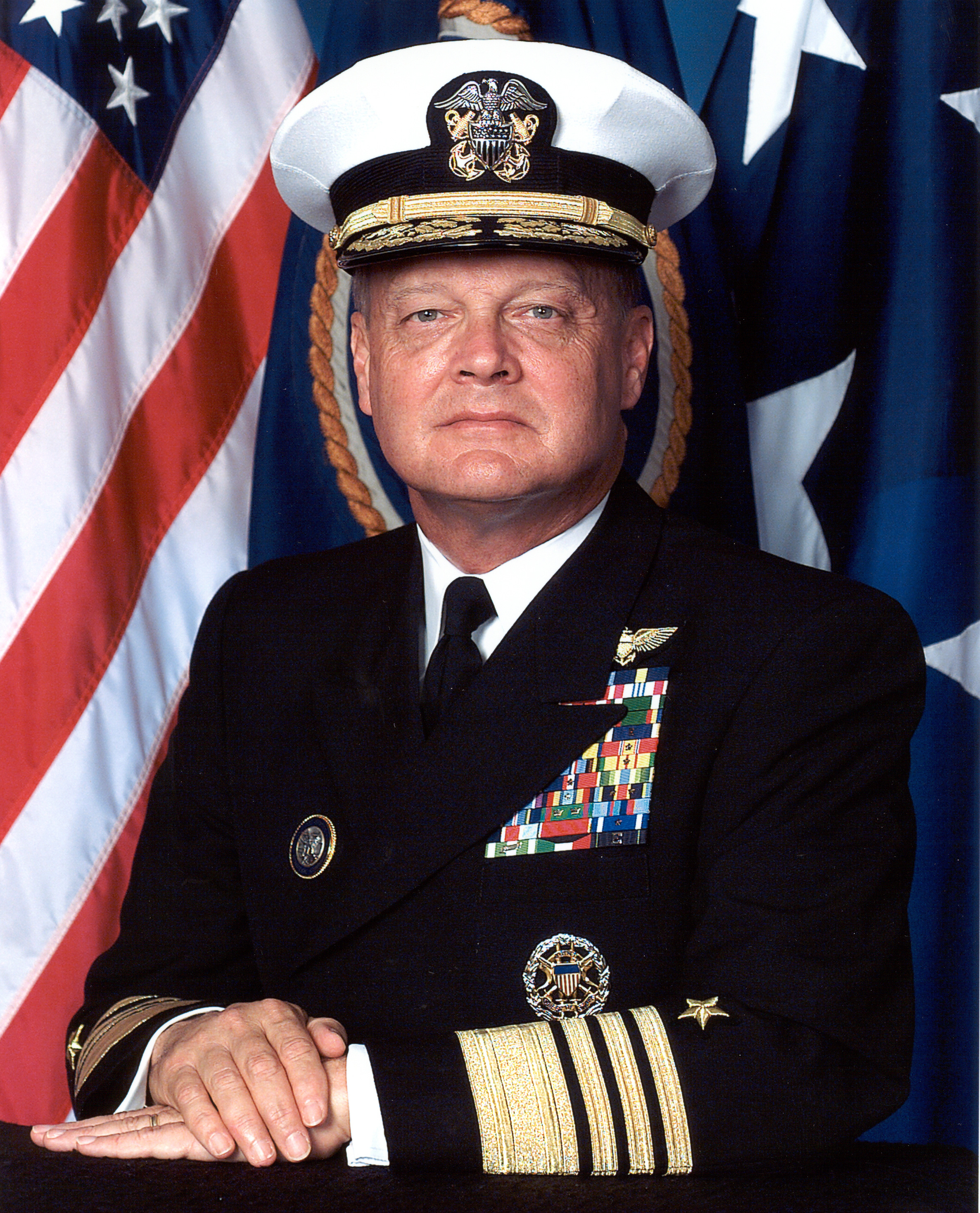 ADM James O. Ellis, Jr., a retired 4-star admiral and former Commander, United States Strategic Command, Offutt Air Force Base, Nebraska. He was President and Chief Executive Officer, Institute of Nuclear Power Operations until May 2012 and serves on the board of directors of Lockheed Martin.